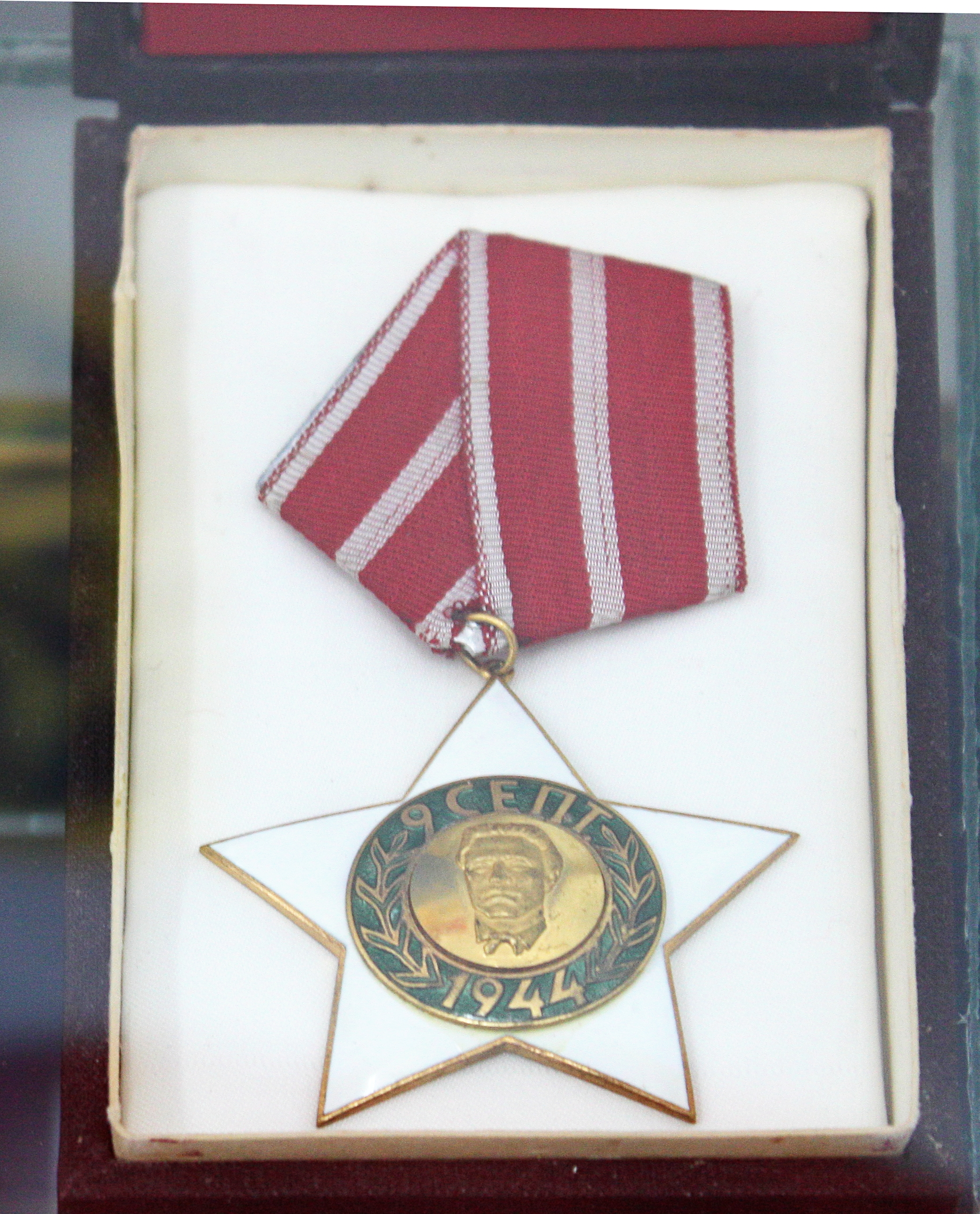 Historic Museum Ivailovgrad, Bulgaria